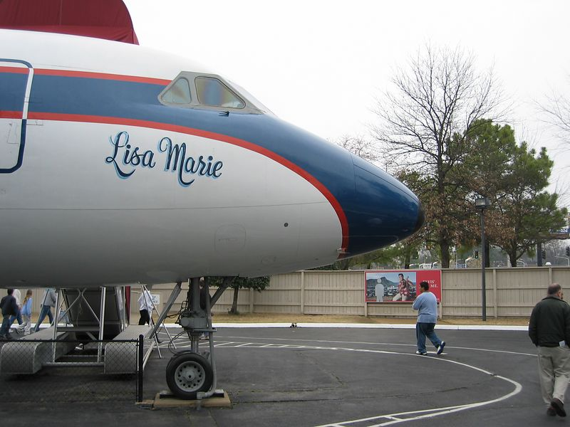 Elvis Presley's plane, "Lisa Marie", named after his daughter on display at Graceland